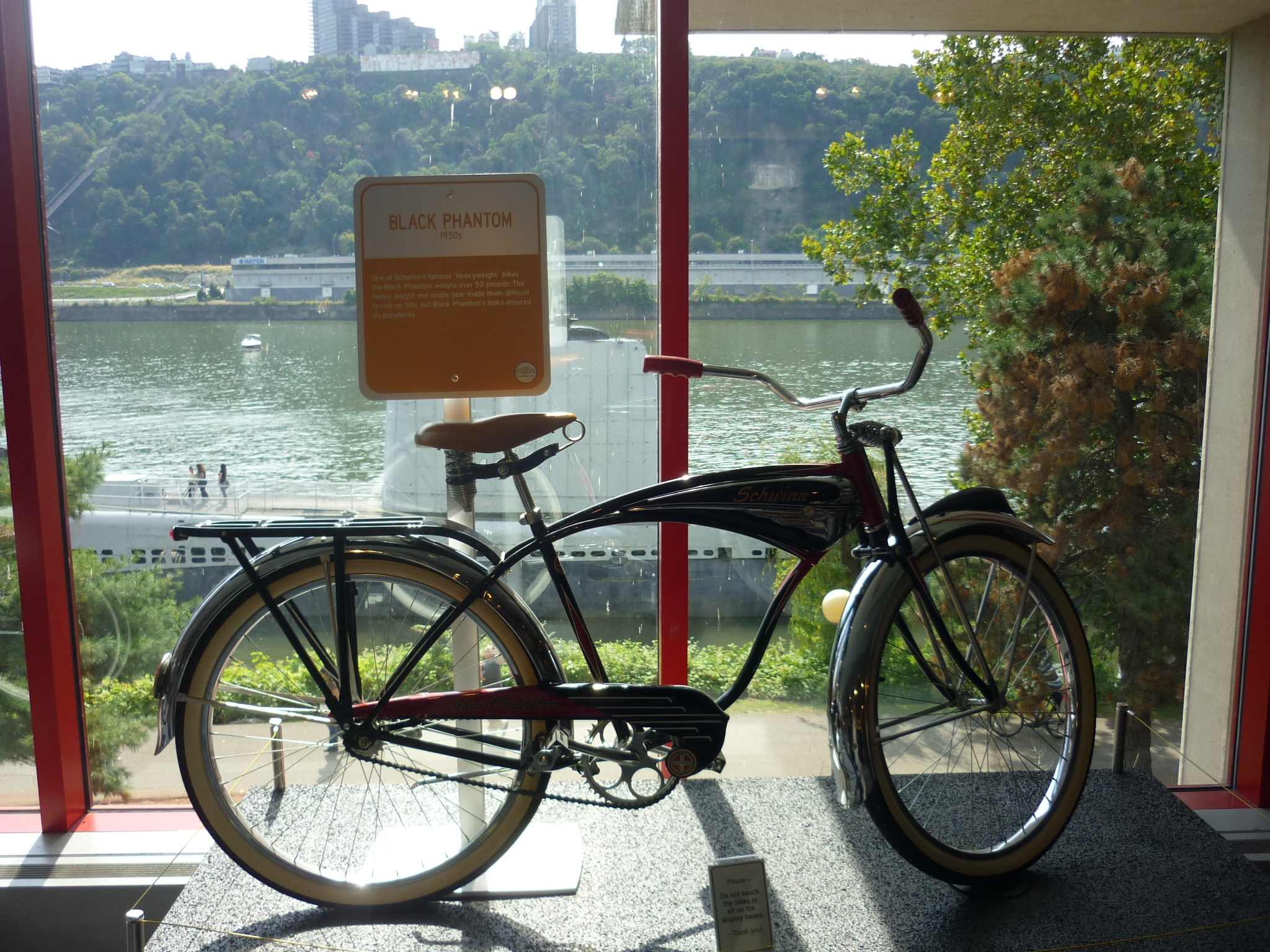 The 1950s Black Phantom bicycle on display at the Carnegie Science Center in Pittsburgh, PA. It was manufactured by Schwinn, had one gear and weighed 50 pounds.